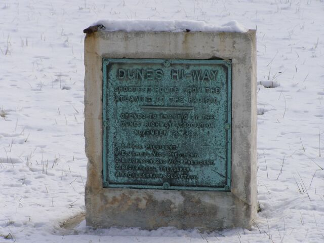 Dunes Highway Historic Marker located at U.S. 12 and Indiana 49